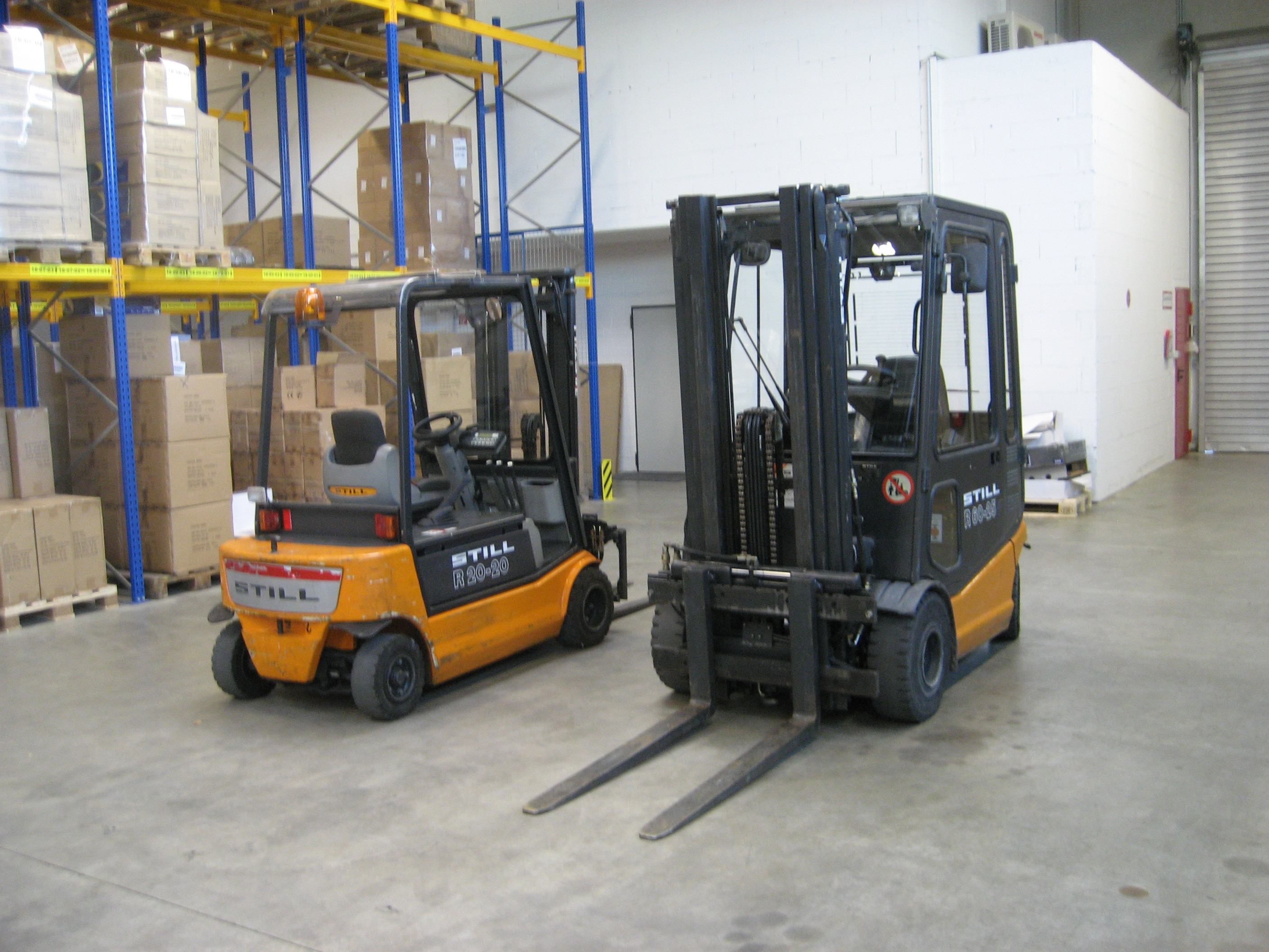 Forklifts in Warehouse. To the right a 2t forklift fitted for road use, to the right a 3t model fitted for extended outdoor use. Picture taken at a Warehouse of HUDORA GmbH, Germany.